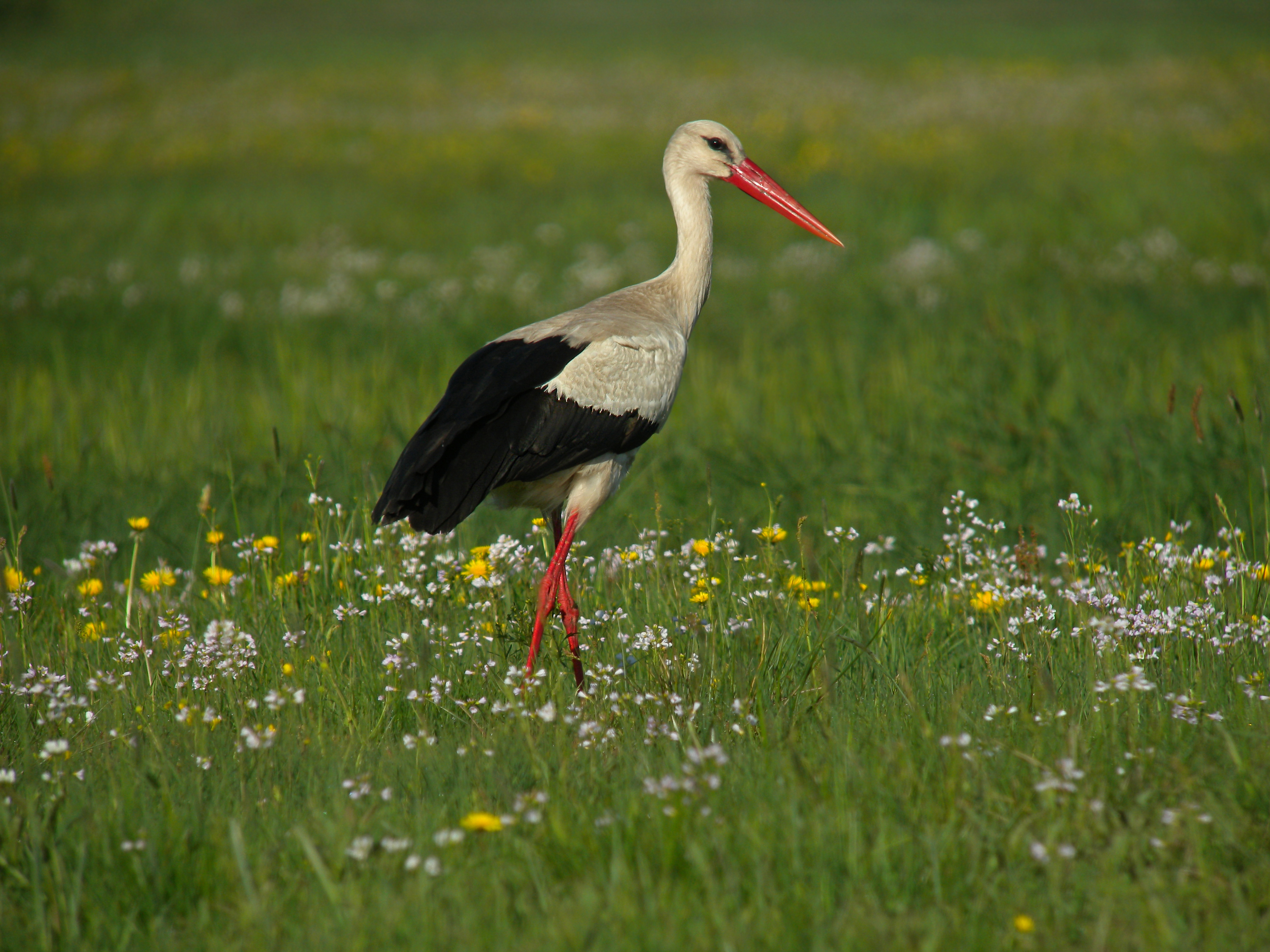 White Stork (Ciconia ciconia) at Zajki meadows, Eastern Poland. Photograph taken by digiscoping with Swarovski ATM 80 HD 30 X, Coolpix P6000 (Adapter DCB)